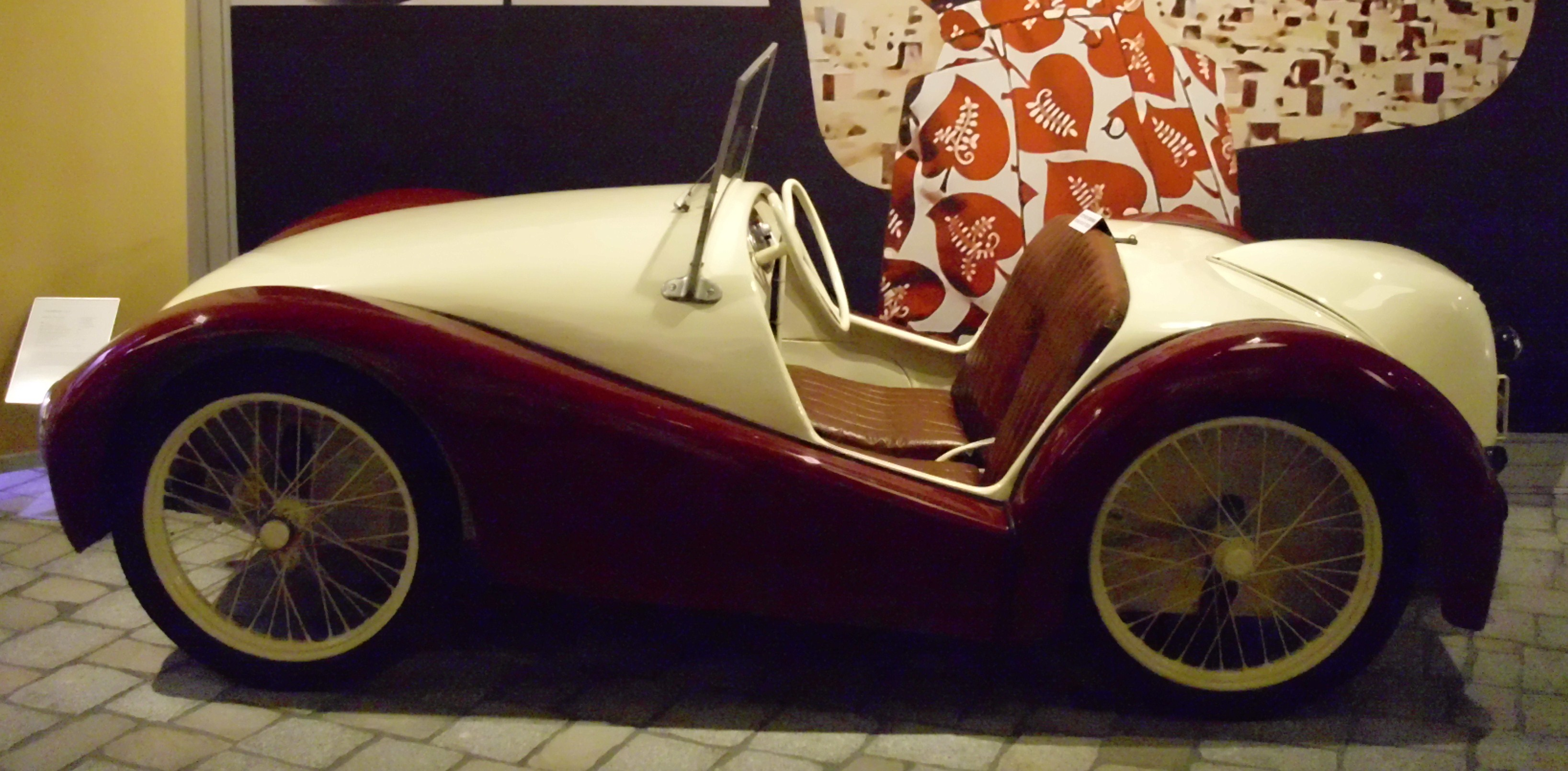 Champion Ch-2 1949-1950